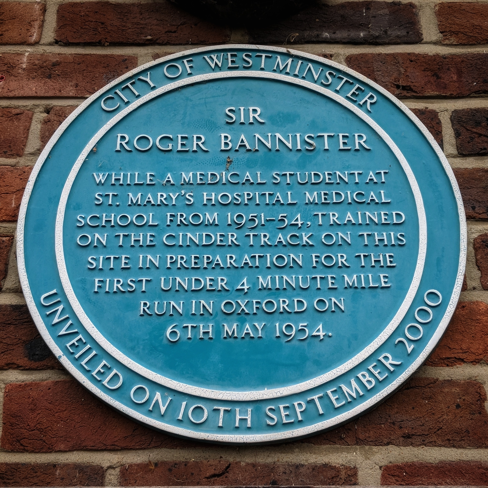 While a medical student at St Mary's Hospital Roger Bannister prepared for the 4 minute mile attempt at Paddington Recreation Ground